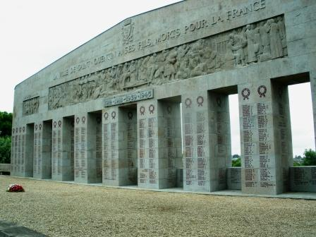 The colossal St Quentin monument aux morts (war memorial. St Quentin, one of the major cities of the Aisne region, suffered major damage during the Great War and the monument aux morts, designed by the Prix de Rome winning architect Paul Bigot, has splendid bas-reliefs by Henri Bouchard and Paul Landowski. These cover the wars of 1557, 1870-1871 and 1914-1918. The monument was inaugurated on the 31st July 1927 by General Débeney